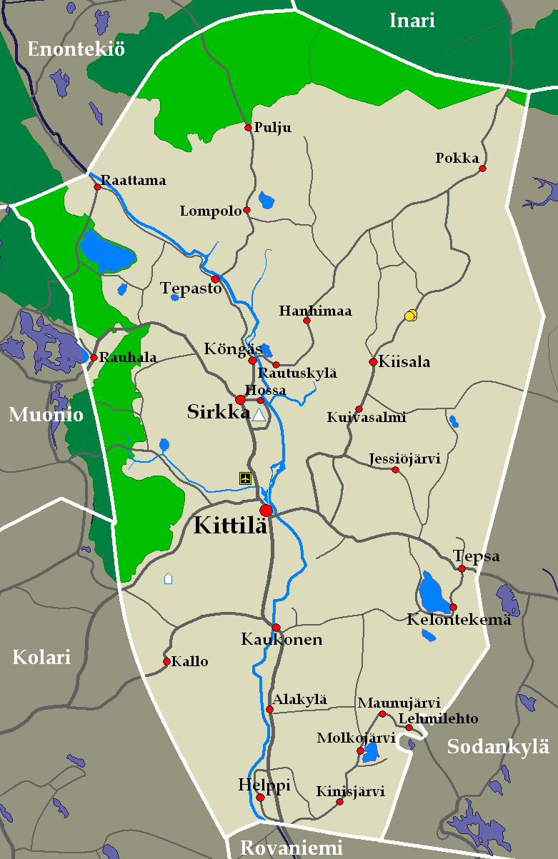 Map of Kittilä, Finland